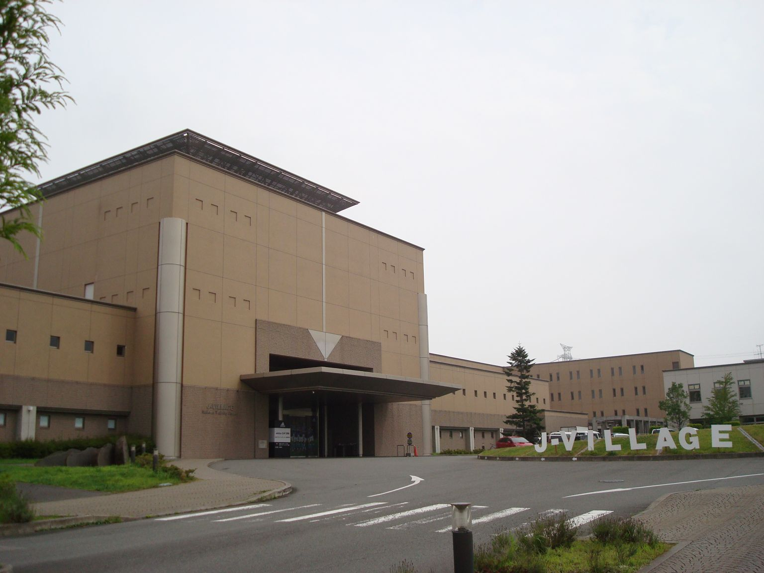 J-Village's "center house"; the headquarters of J-Village national training center, hotel and restaurants for athletes, and shop for visitors. Placed at Naraha, Fukushima, Japan.